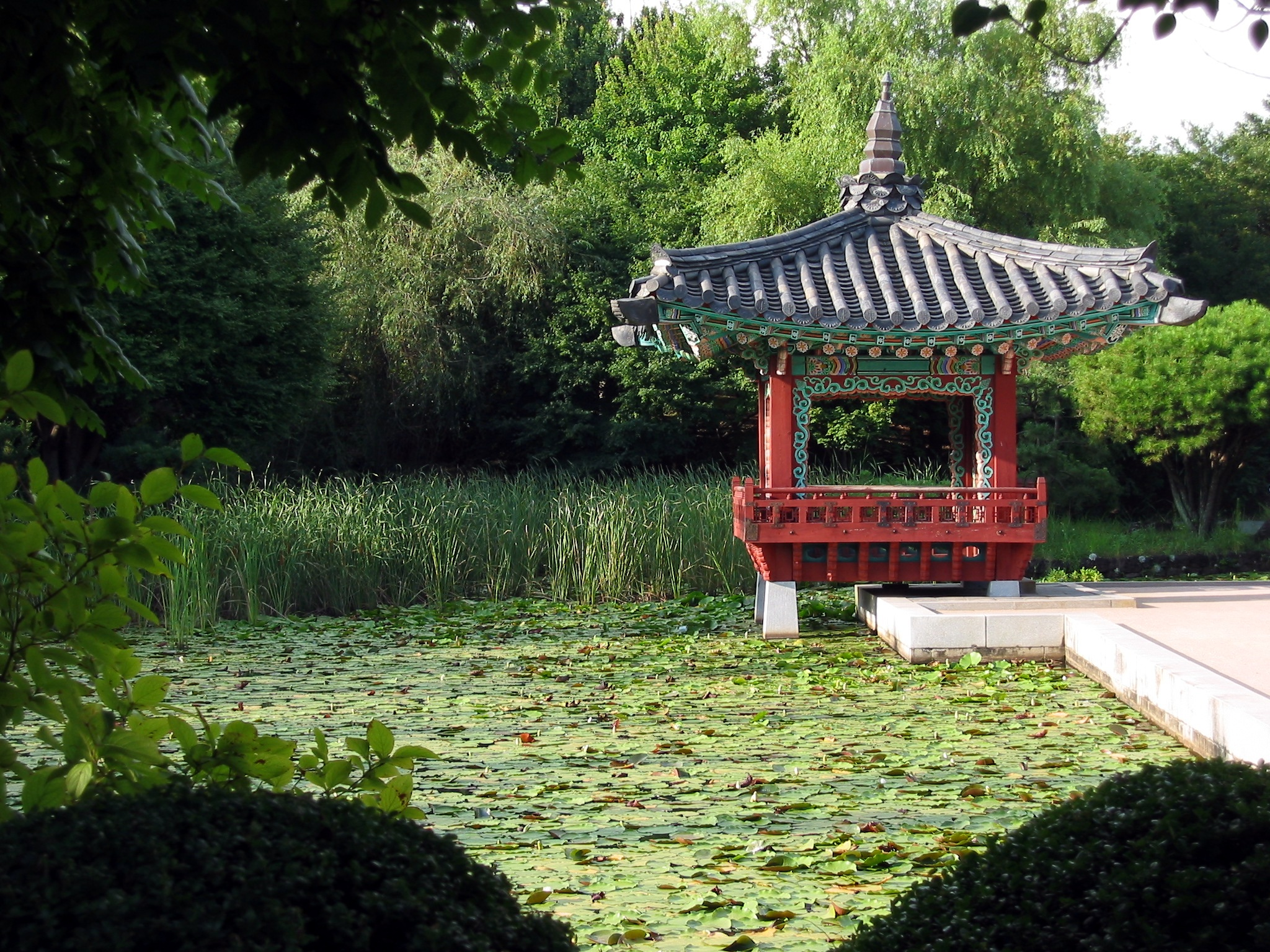 Corean Garden in a botanicel Garden in Corea on the Jeju island. Picture taken by myself 2003.